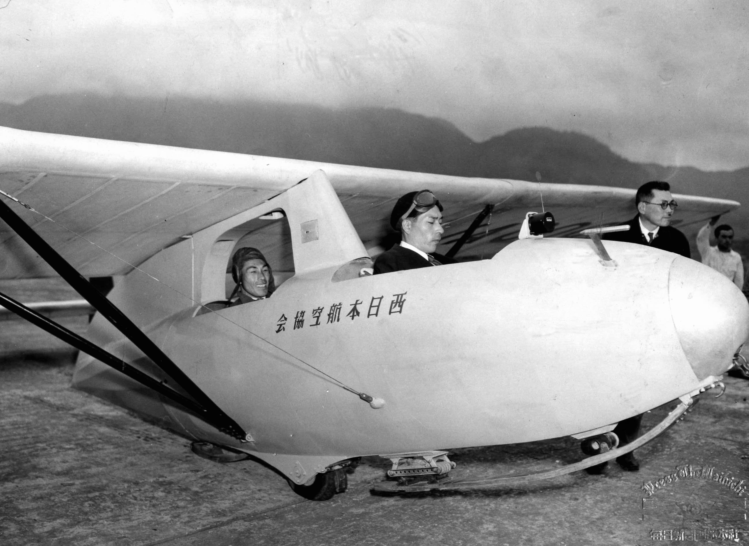 SM-206 Glider Tadao Kawabe operation